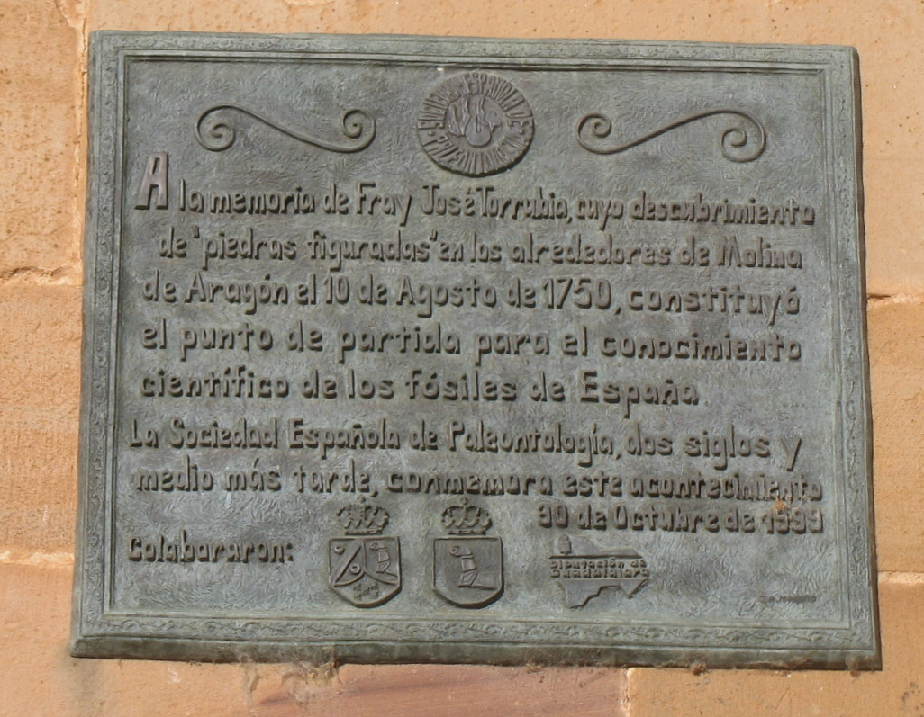 Conmemorative plaque of José Torrubia (1698-1761) in Molina de Aragón (Guadalajara, Spain), on the wall of the tower of the church of the monastery of San Francisco.Translated text: "In memory of Fray José Torrubia, whose discovery of 'figured stones' around Molina de Aragon on August 10, 1750 contributed to the starting point for the scientific knowledge of the fossils of Spain. The Spanish Society of Paleontology, two and a half centuries later, commemorates this event. October 30, 1999".The plaque was placed in the framework of the XV Jornadas de Paleontología, held in Madrid.